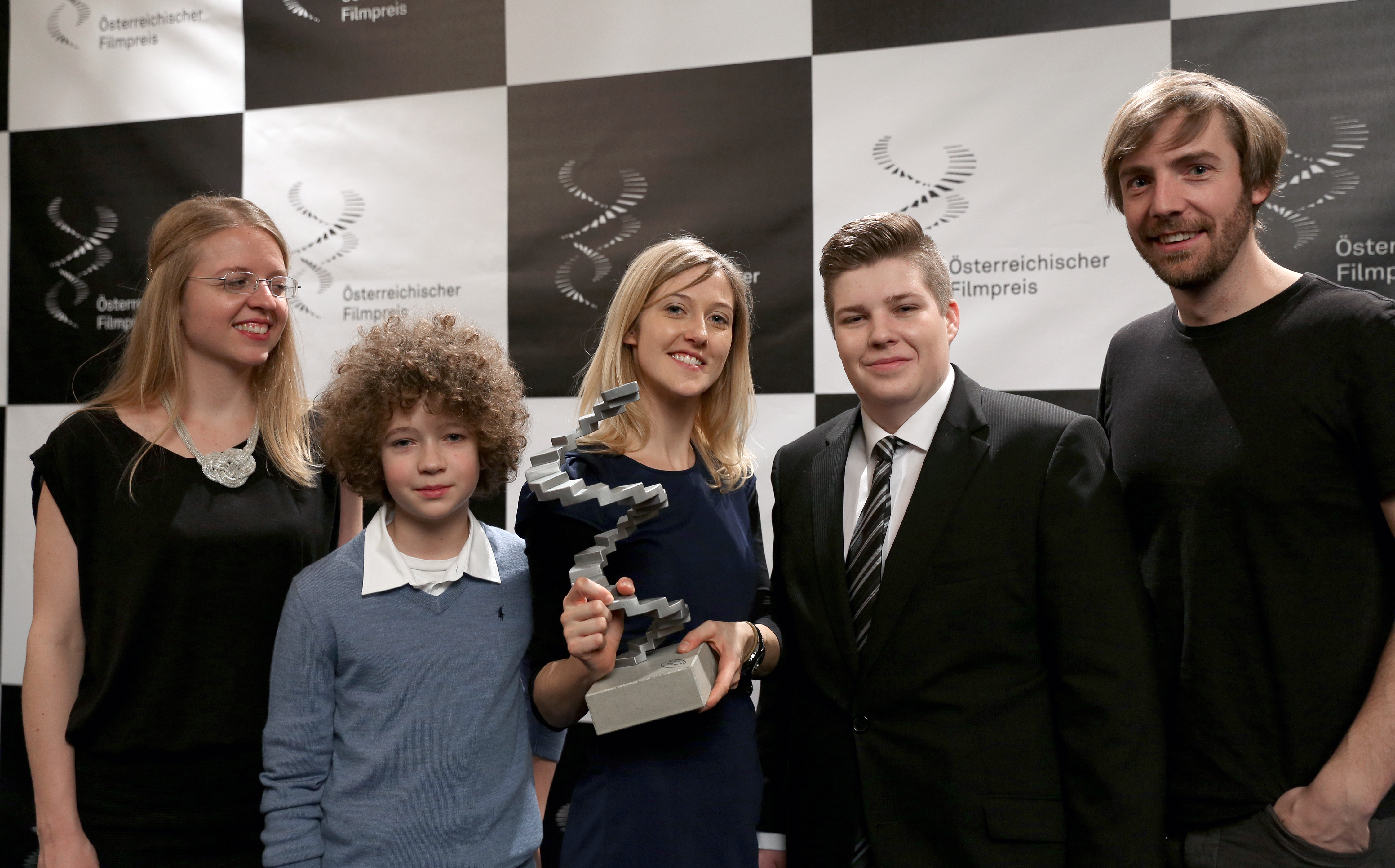 Anna Heuss, Emilio Bachmann, Magdalena Lauritsch, Thomas Otrok and Jakob Fuhr, team of Rote Flecken, awarded as best short film at the Austrian Film Awards 2015 at Rathaus, Vienna,Austria.